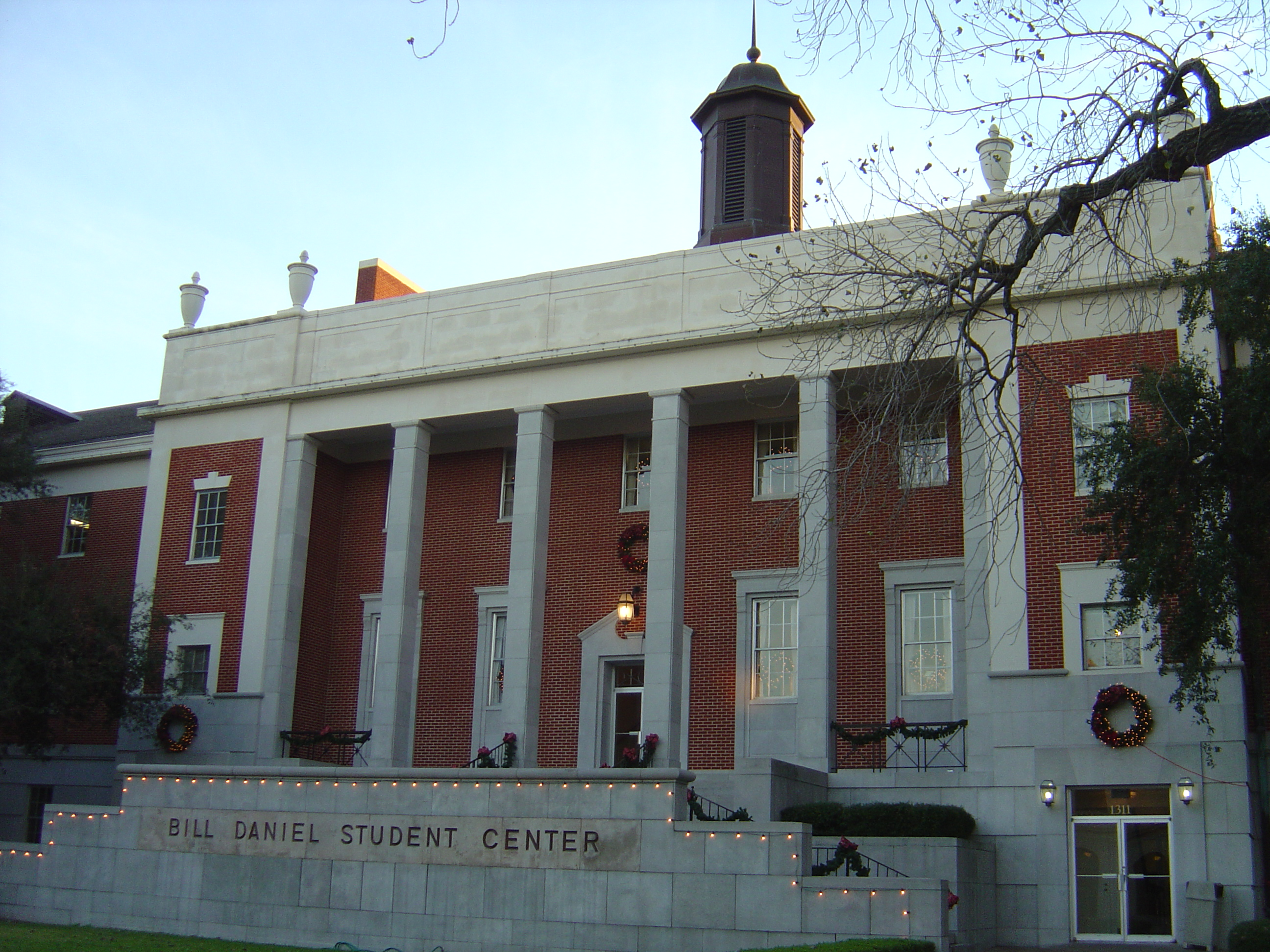 Bill Daniel Student Center, Baylor University, Texas, USA